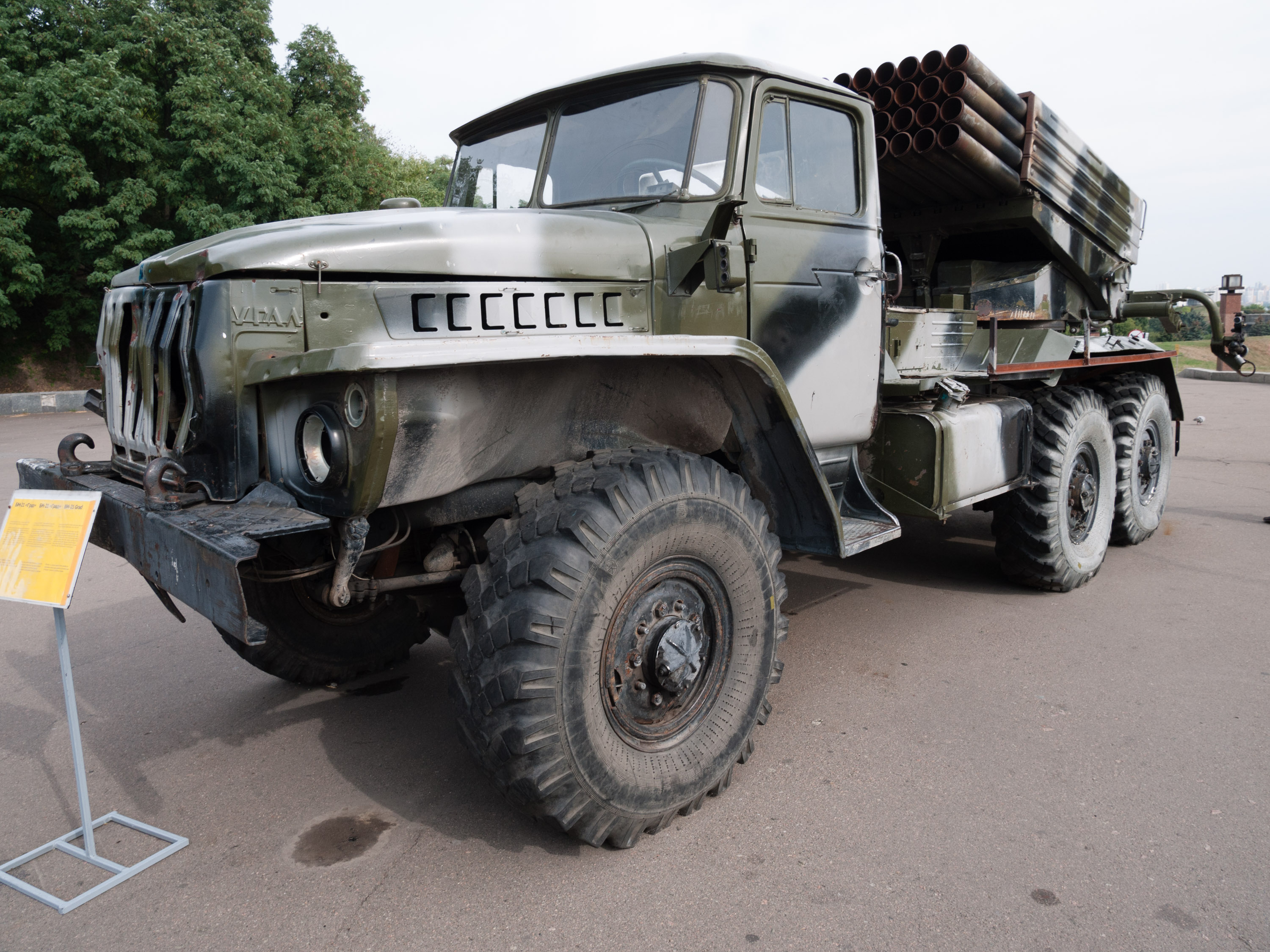 BM-21 Grad (MUN 27777) view